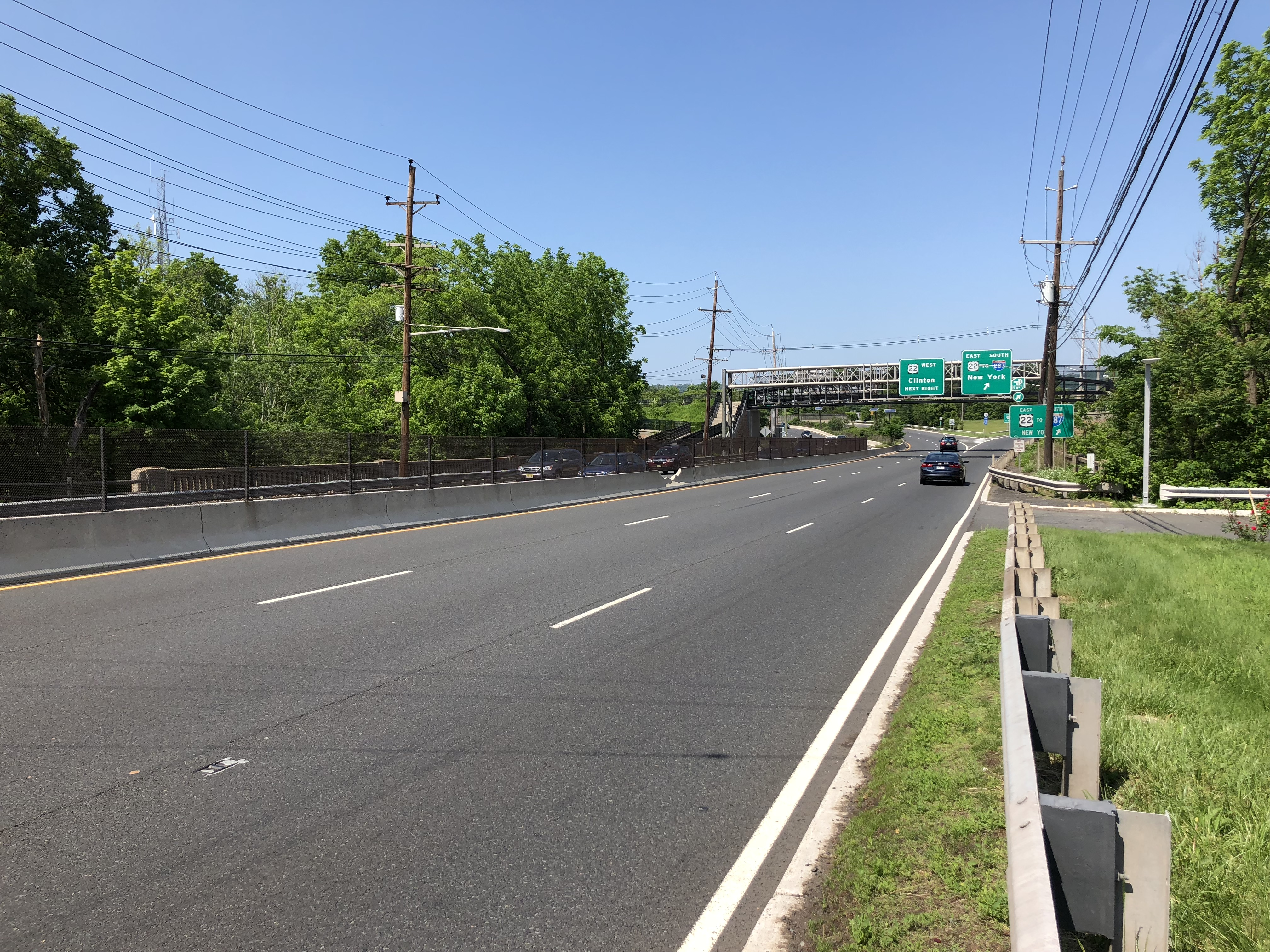 View north along U.S. Route 202 and U.S. Route 206 between the Somerville Circle and U.S. Route 22 in Somerville, Somerset County, New Jersey